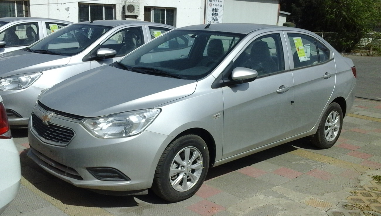 Chevrolet Sail 3 photographed in Beijing, China.